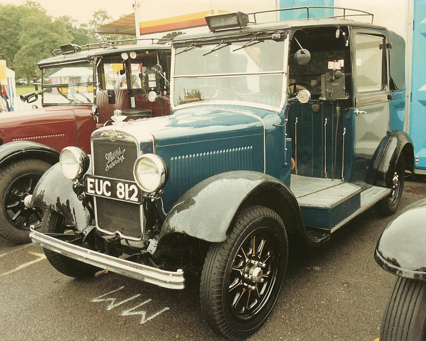 Morris-Commercial G2SW London Taxi